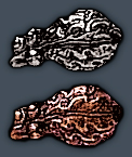 Bronze and silver oak leaf clusters awarded by the United States Department of Defense to be worn as an add-on device on various awards and decorations to denote more than one bestowal of the decoration.